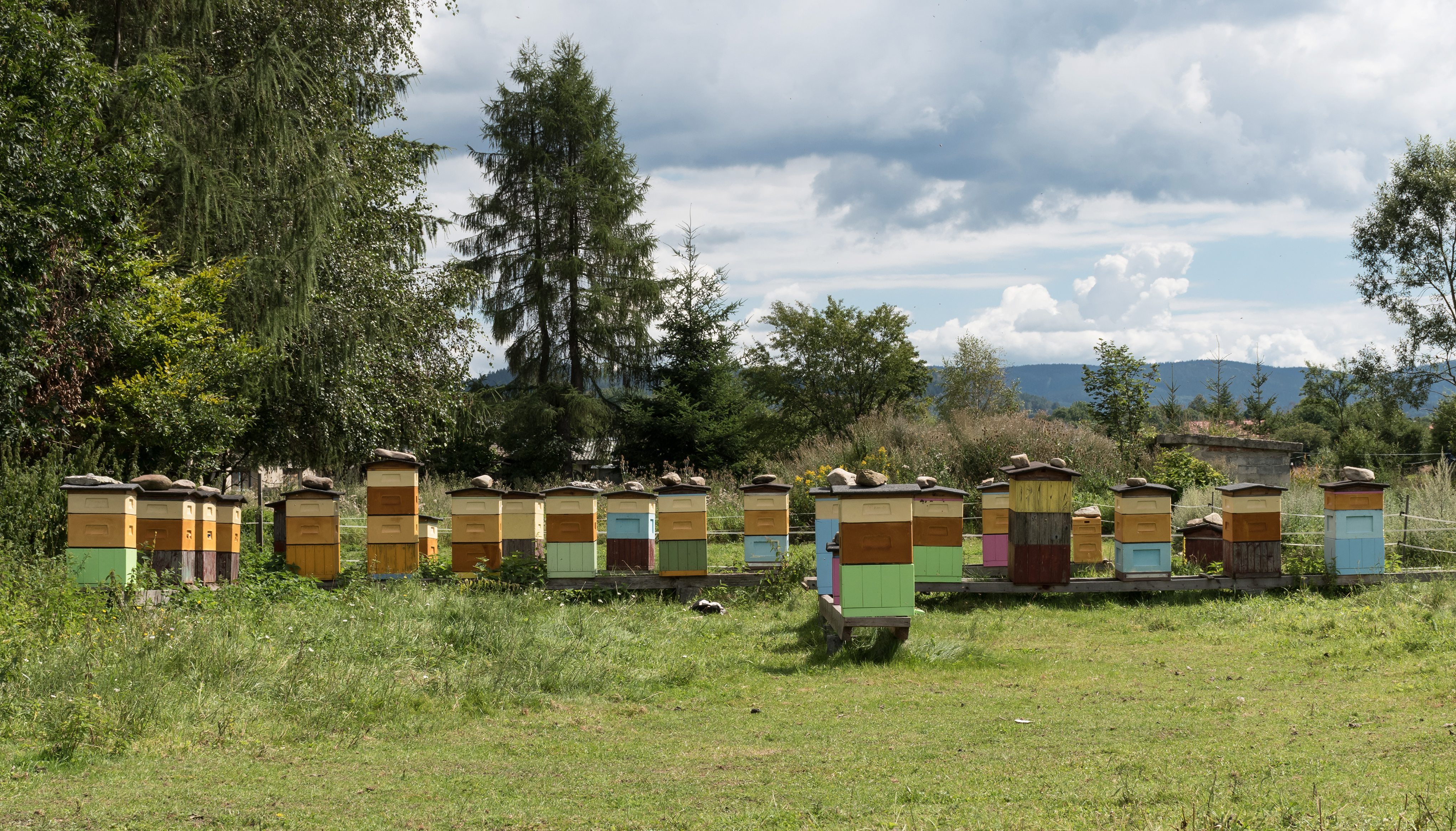 Apiary in Trzebieszowice